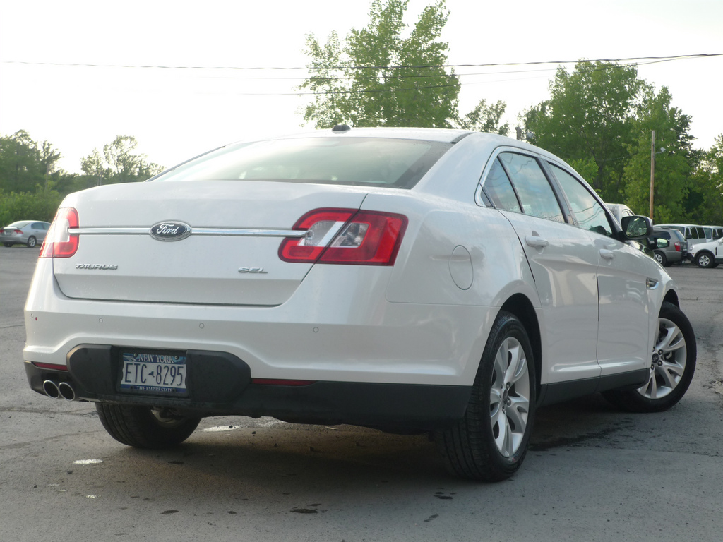 Seen at the lot for the Avis-Budget Group's operations at Albany(NY) International Airport. I work as a shuttler(basically a driver) for Avis/Budget, so I get to drive a lot of cars. I've been really impressed with the new Taurus. Its well put together, stylish, spacious, comfortable, pretty well equipped and kind of quick too. The company shipped in a ton of them recently-I predict they'll replace the Grand Marquis in the fleet eventually.